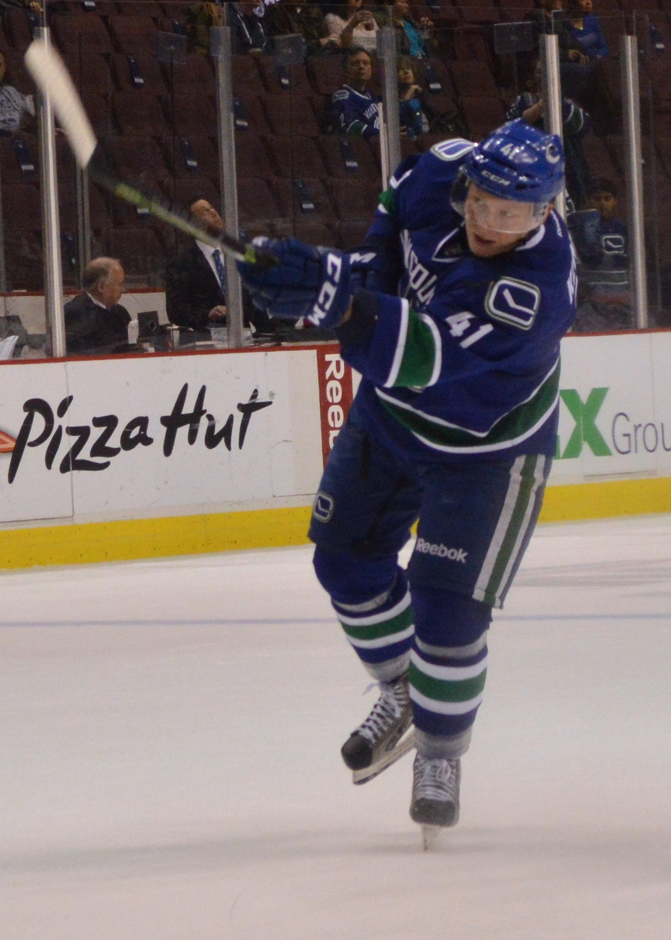 Vancouver Canucks forward Ronalds Kenins during warm-up prior to a game against the Winnipeg Jets at Rogers Arena on February 3, 2015.